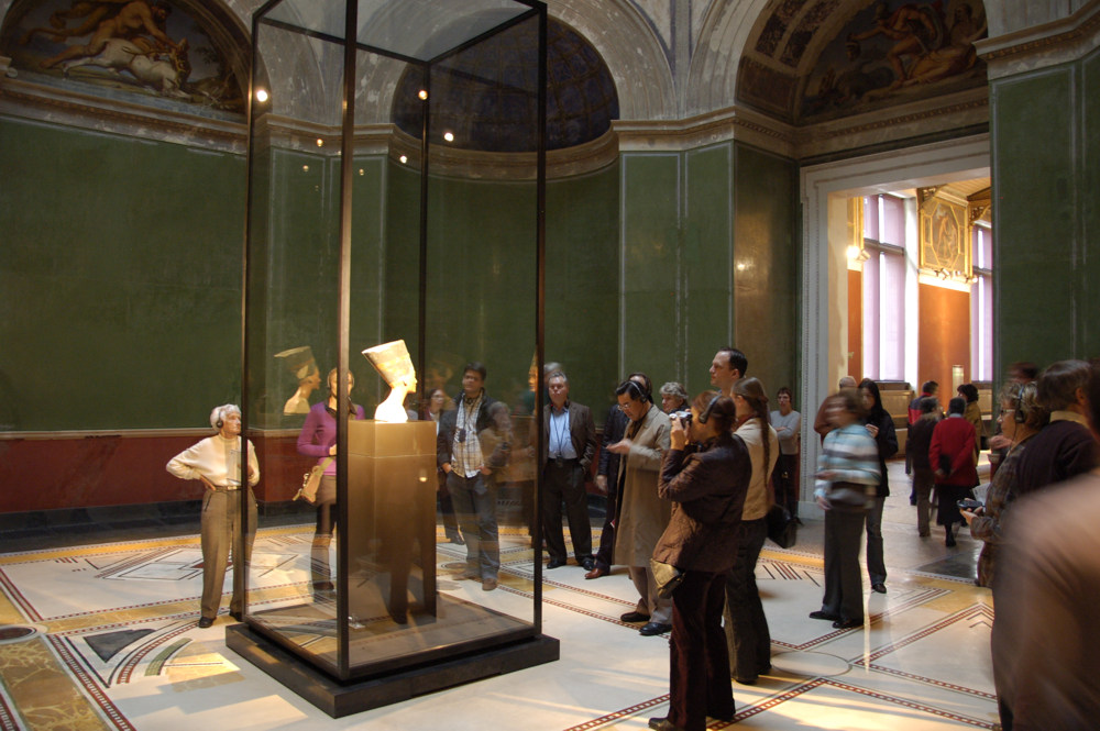 The room in the "Neues Museum Berlin" where Nofretete is on display.